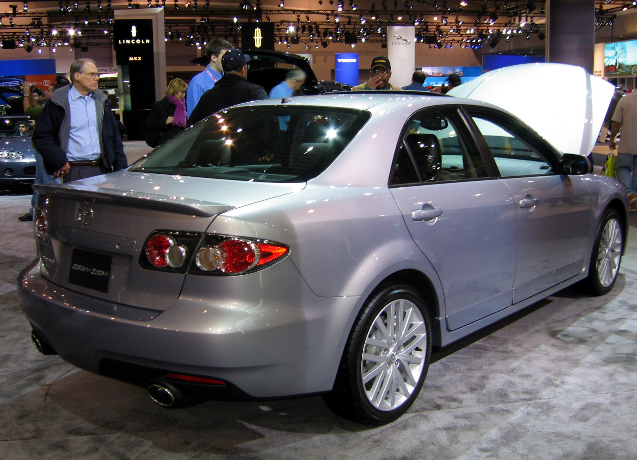 Photo by User:AudeVivere, taken at the 2006 Washington Auto Show.